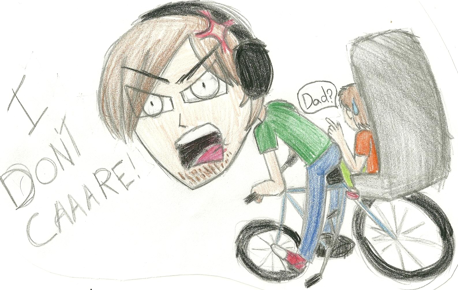 Fan art of PewDiePie (Felix Kjellberg)